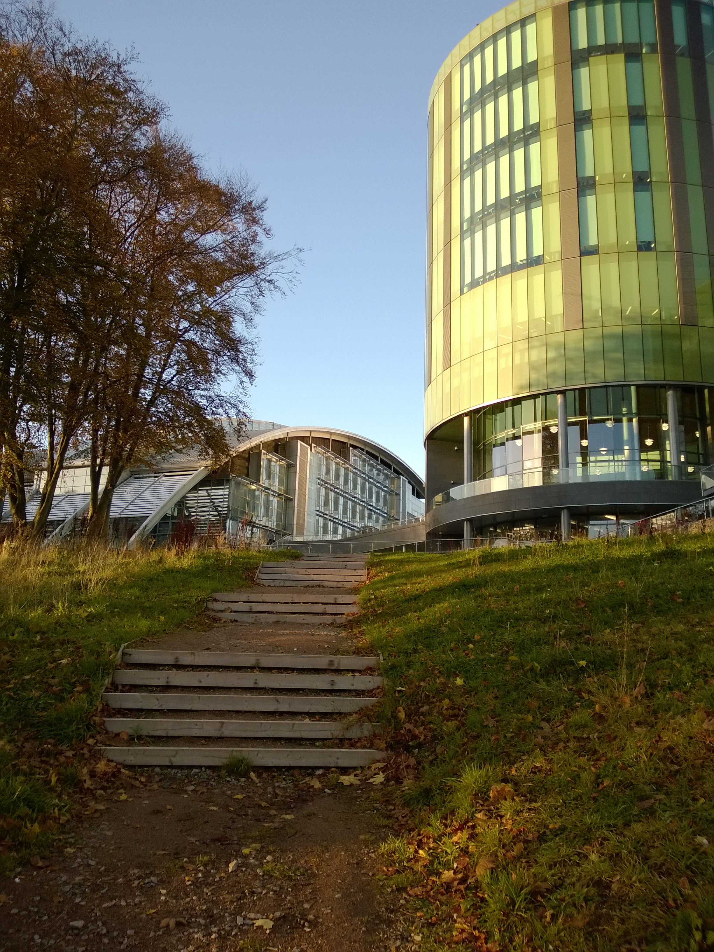 Path leading from River Dee to main campus plaza at The Robert Gordon University, Aberdeen, Garthdee campus.